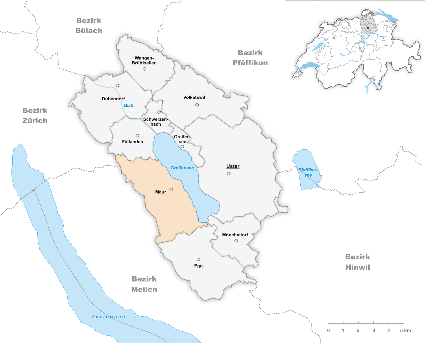 Municipality Maur